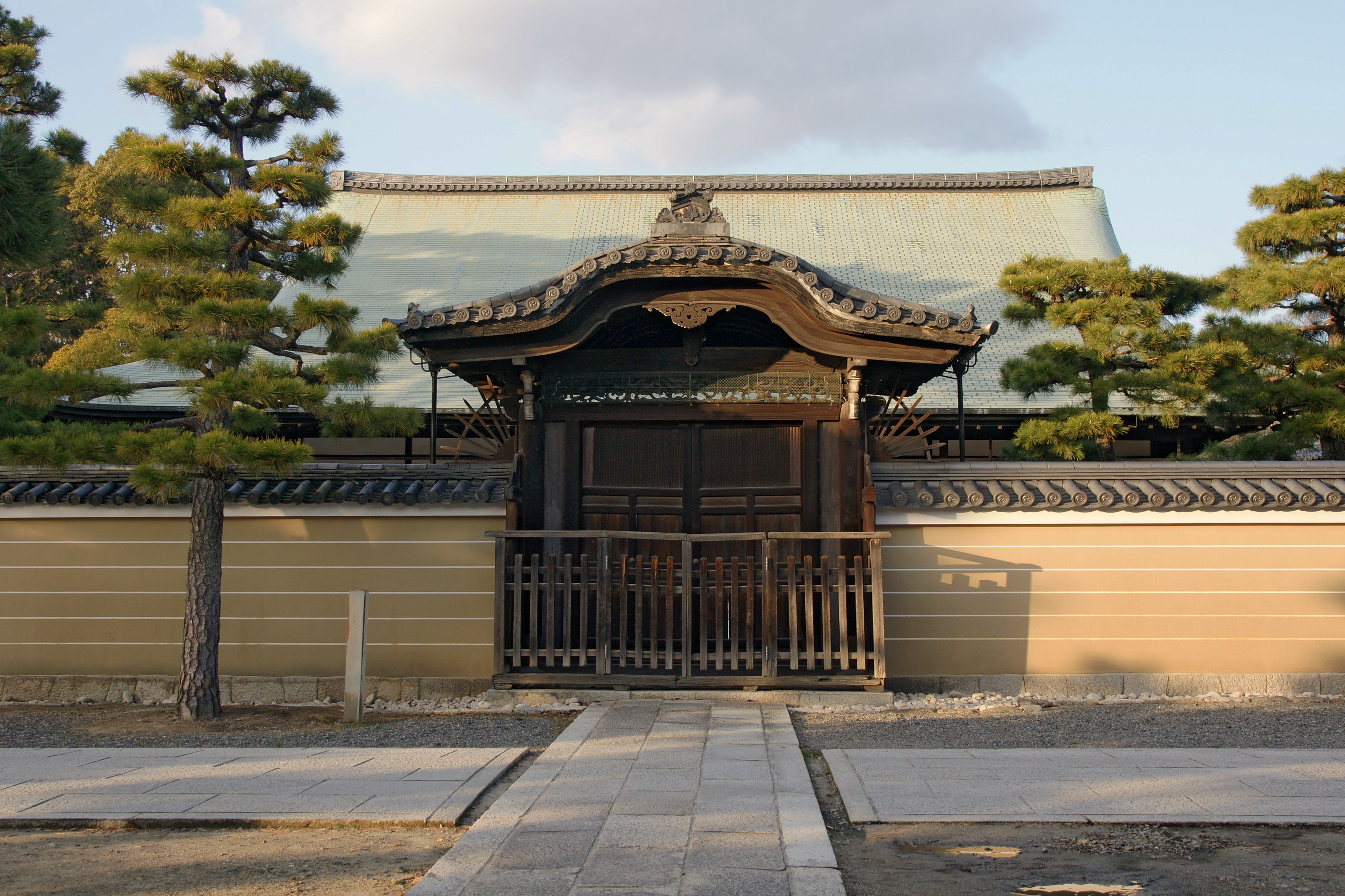 Kennin-ji in Higashiyama-ku, Kyoto, Kyoto Prefecture, Japan